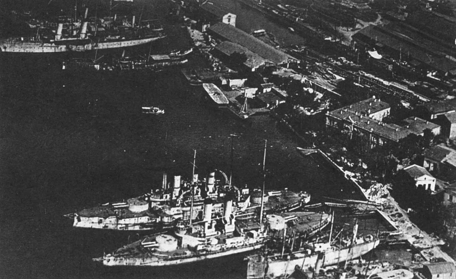 Battleships Tri Svyatitelya and Borets za Svobodu, and seaplane carrier Almaz in Sevastopol, 1918.